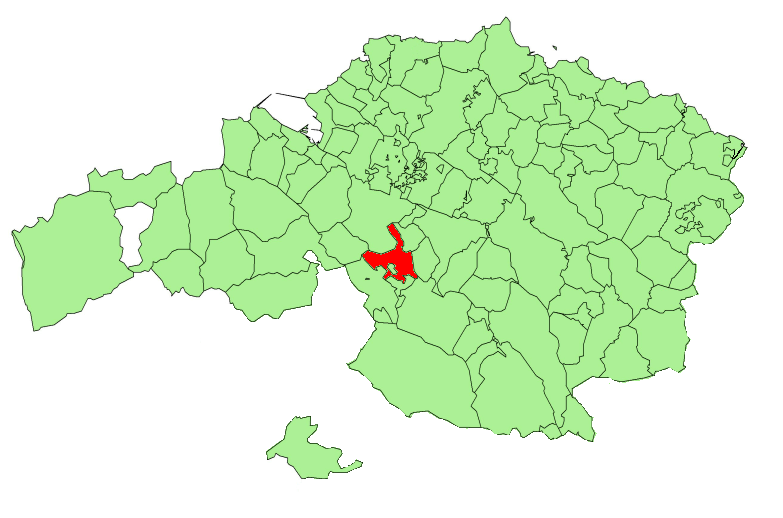 Arrigorriaga municipality in the province of Biscay